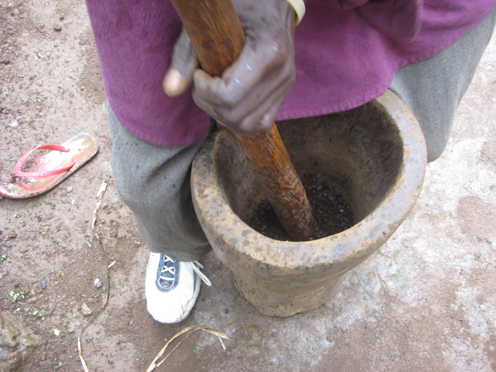 A chagga farmer grinds some Kilimanjaro coffee seeds in Marangu This is an image of food from Tanzania